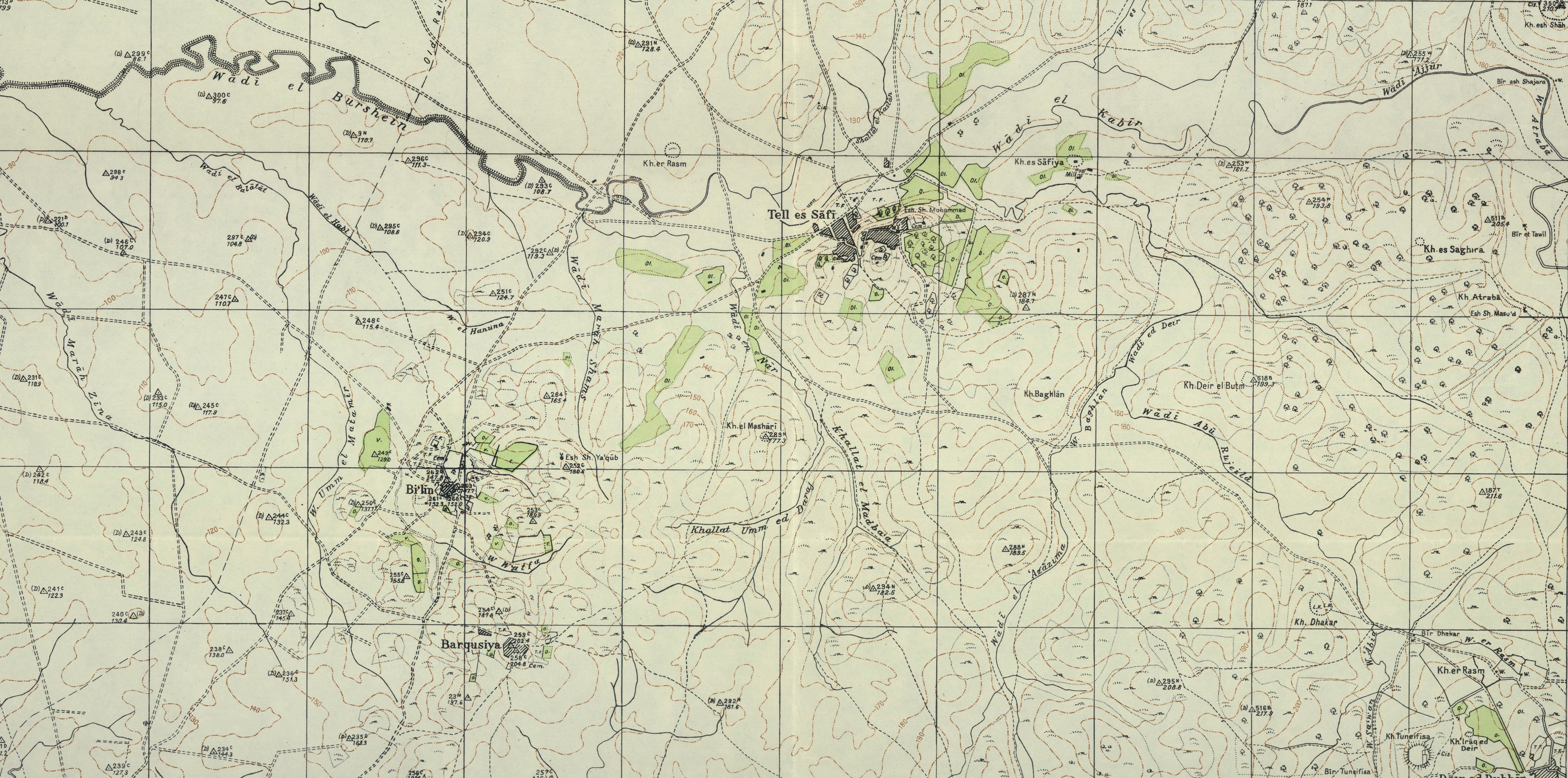 Tell es Safi 1948 1:20,000